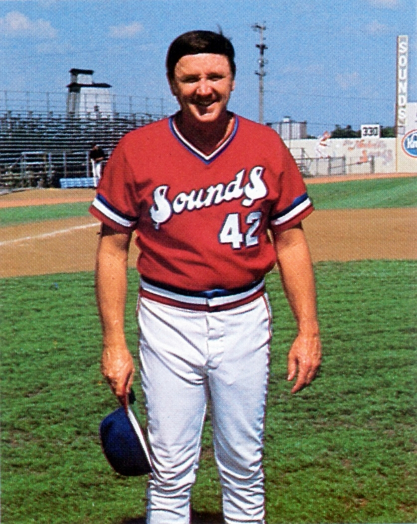 Manager Jim Marshall of the 1984 Nashville Sounds Minor League Baseball team of the Southern League